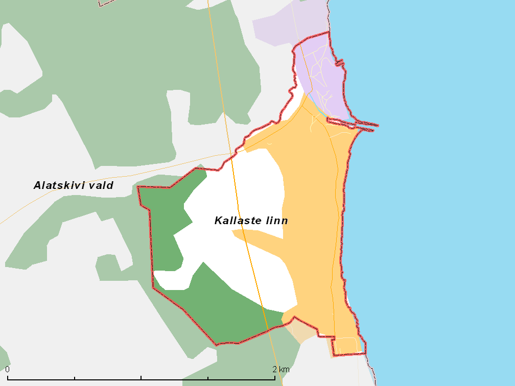 Map of municipality in Estonia